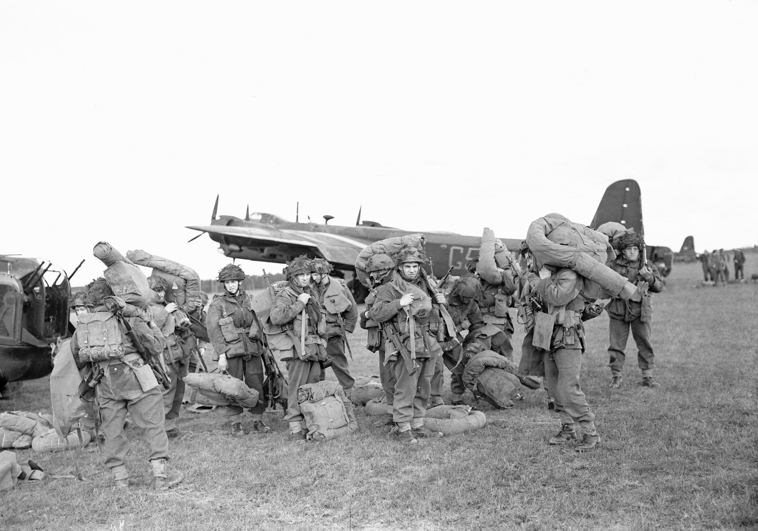 British airborne troops who have just disembarked from Stirling aircraft at Gardermoen airfield near Oslo, 11 May 1945. Troops from the British 1st Airborne Division having disembarked from Short Stirlings of No. 190 Squadron at Gardermoen airfield near Oslo, during Operation 'Doomsday 2', 11 May 1945.